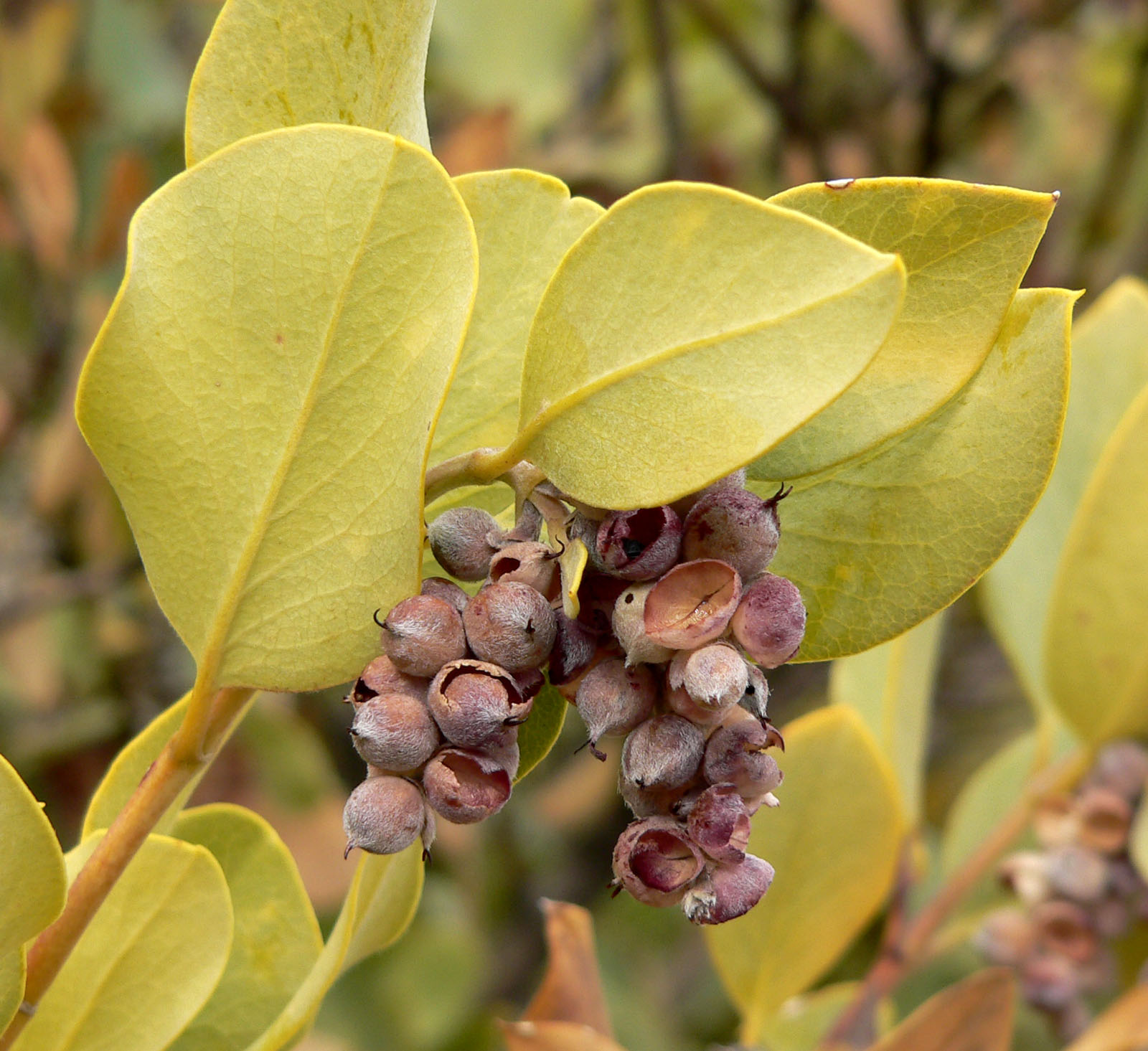 Garrya flavescens — Ashy silktassel. In Oak Creek Canyon, Red Rock Canyon, southern Nevada.